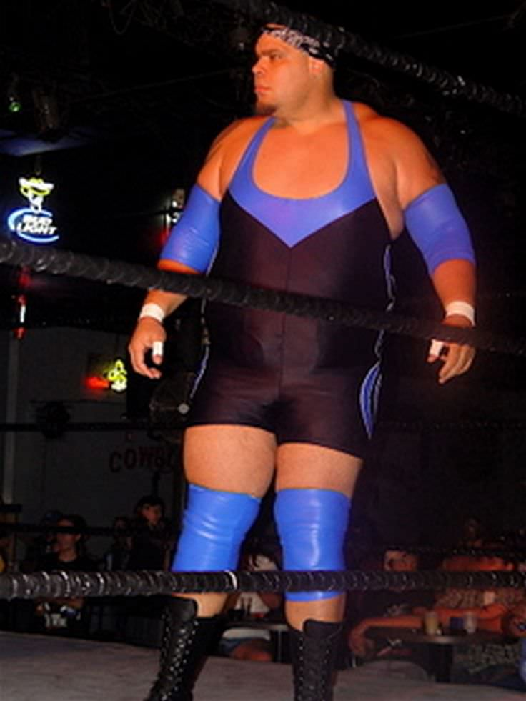 Brodus Clay as G-Rilla at FCW event in Ft Myers, Florida